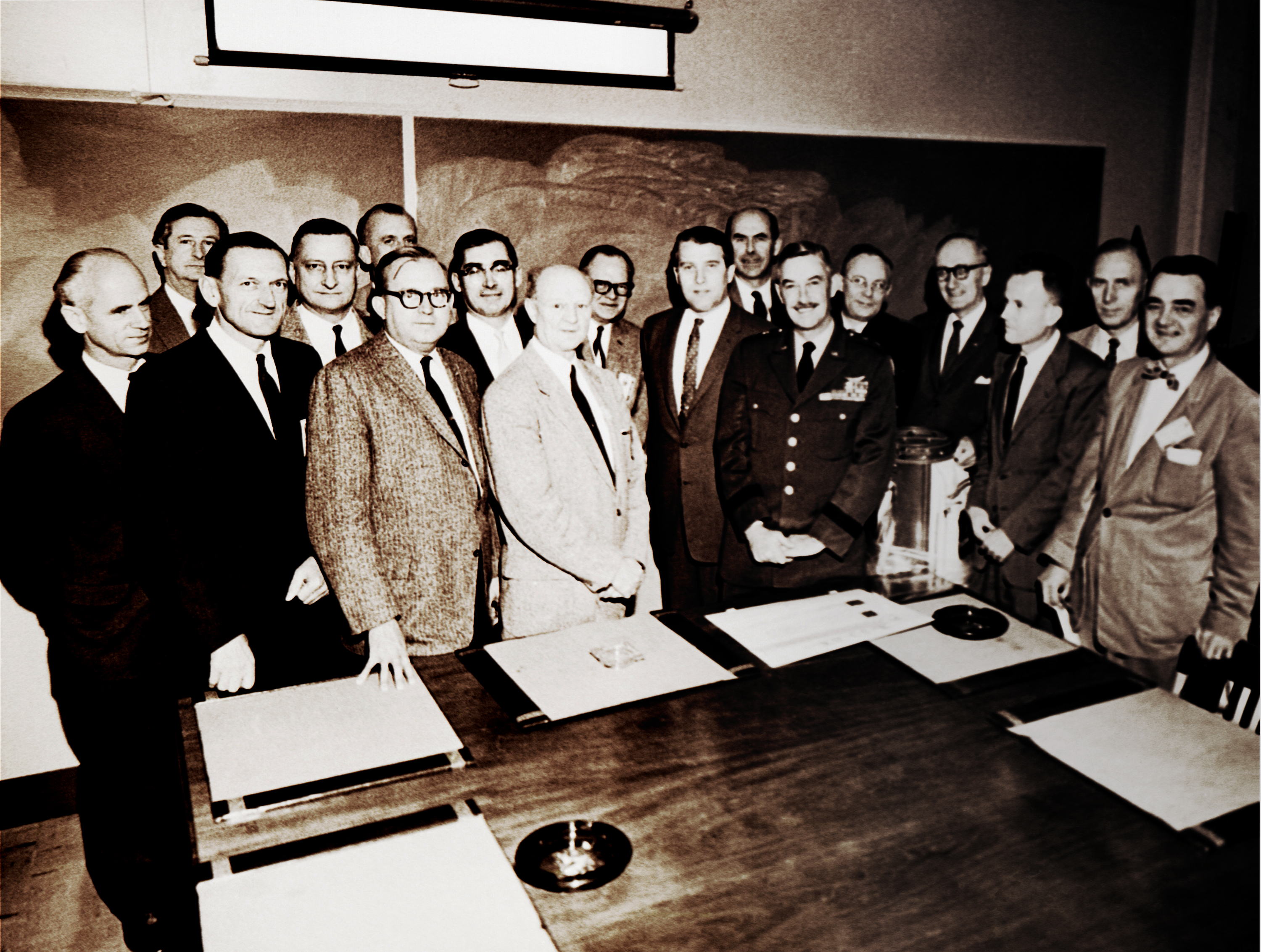 This photograph of Dr. von Braun, shown here to the left of General Bruce Medaris, was taken in the fall of 1959, immediately prior to Medaris' retirement from the Army. At the time, von Braun and his associates worked for the Army Ballistics Missile Agency in Huntsville, Alabama. Those in the photograph have been identified as Ernst Stuhlinger, Frederick von Saurma, Fritz Müller, Hermarn Weidner, E.W. Neubert (partially hidden), W.A. Mrazek, Karl Heimburg, Arthur Rudolph, Otto Hoberg, von Braun, Oswald Lange, Medaris, Helmut Hölzer, Hans Maus, E.D. Geissler, Hans Hüter, and George Constan.